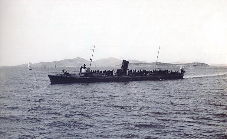 Torpedo boat Nikopolis of the Royal Hellenic Navy sailing in the Saronic Gulf in 1913. Formerly Antalya of the Ottoman Navy, built by Ansaldo in 1906. Scuttled by her Ottoman crew in Amvrakikos Gulf in 1912, refloated and used by the RHN until 1919.